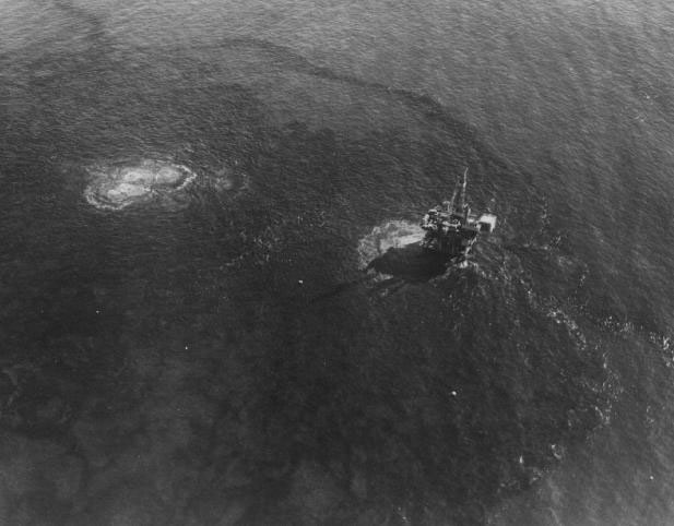 Aerial view of oil rising to the Pacific Ocean surface (upper left) near the polluting drilling rig — during the 1969 Santa Barbara Oil Spill. Located in the Santa Barbara Channel, off the coast of Santa Barbara County, California.